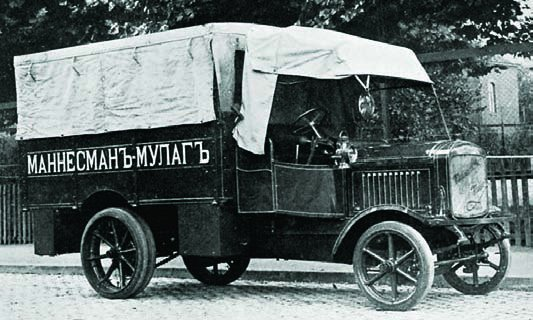 Mannesmann-Mulag L57a truck (1913)